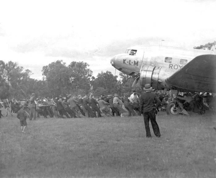 The Uiver being pulled out of the mud after an emergency landing at the racecourse at Albury, New South Wales during the MacRobertson Air Race[1]